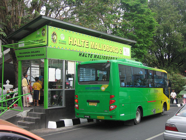 TransJogja bus a local public transportation in Yogyakarta City, Indonesia.